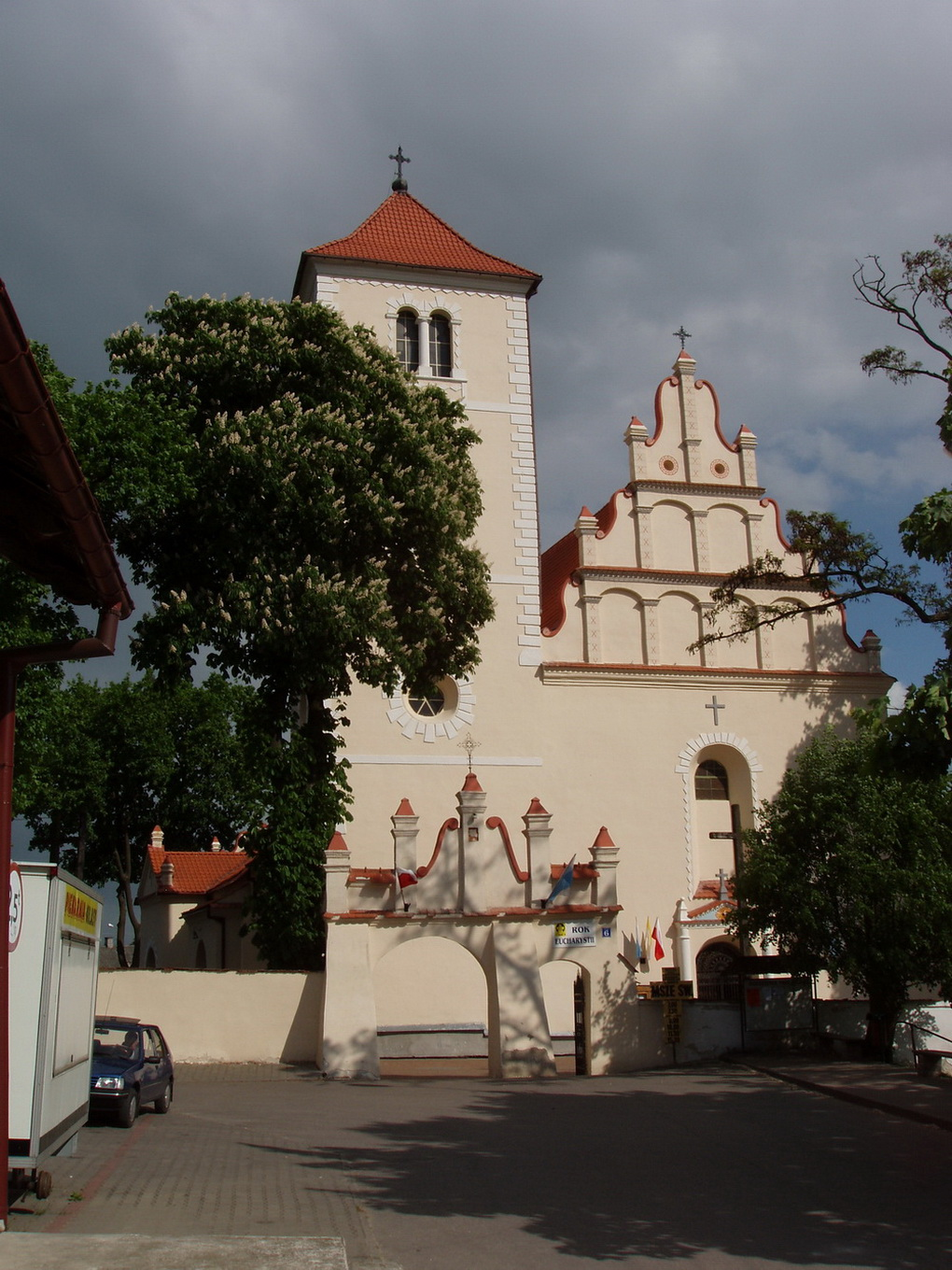 St. Stanislaus and St. Margaret Church - Janowiec (Pulawy county)